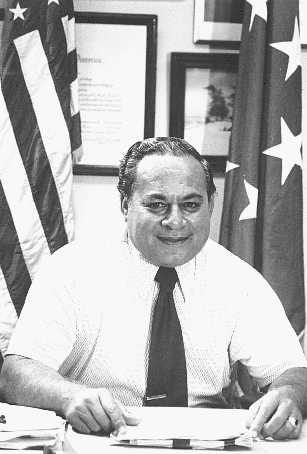 Peter Tali Coleman(Deputy High Commissioner of the Trust Territory of the Pacific Islands)